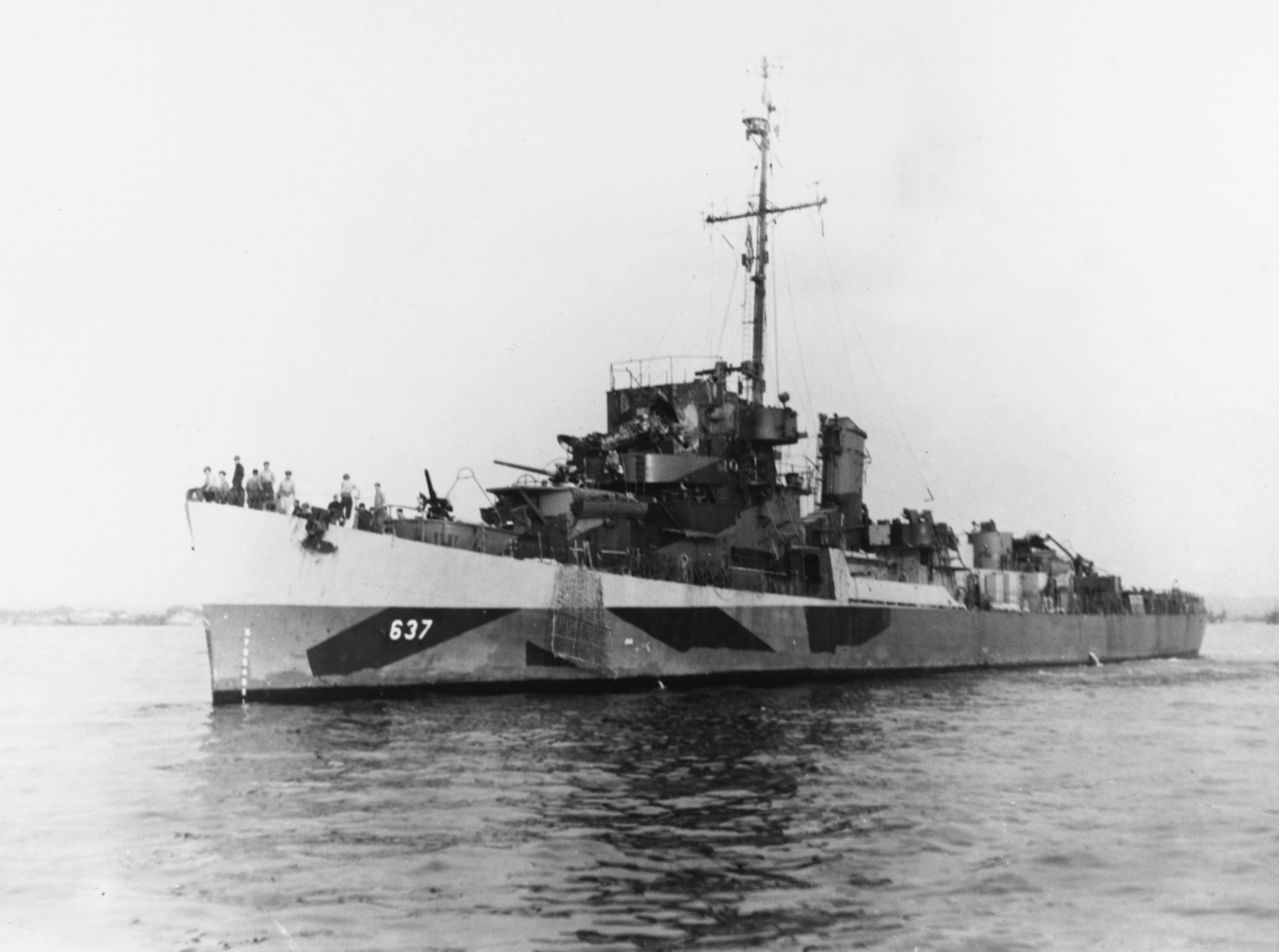 The U.S. Navy destroyer escort USS Bowers (DE-637) arriving in the Kerama Retto, Ryukyu Islands, under her own power after being hit by a Kamikaze on 16 April 1945. Wreckage of the plane, a Nakajima Ki-43 (Allied code name "Oscar"), can be seen embedded in the the ship's bridge face. Note Bowers' very unusual paint, with traces of Camouflage Measure 31 or 32, Design 16D, showing through Camouflage Measure 22. The ship may have been undergoing repainting at the time she received this damage.